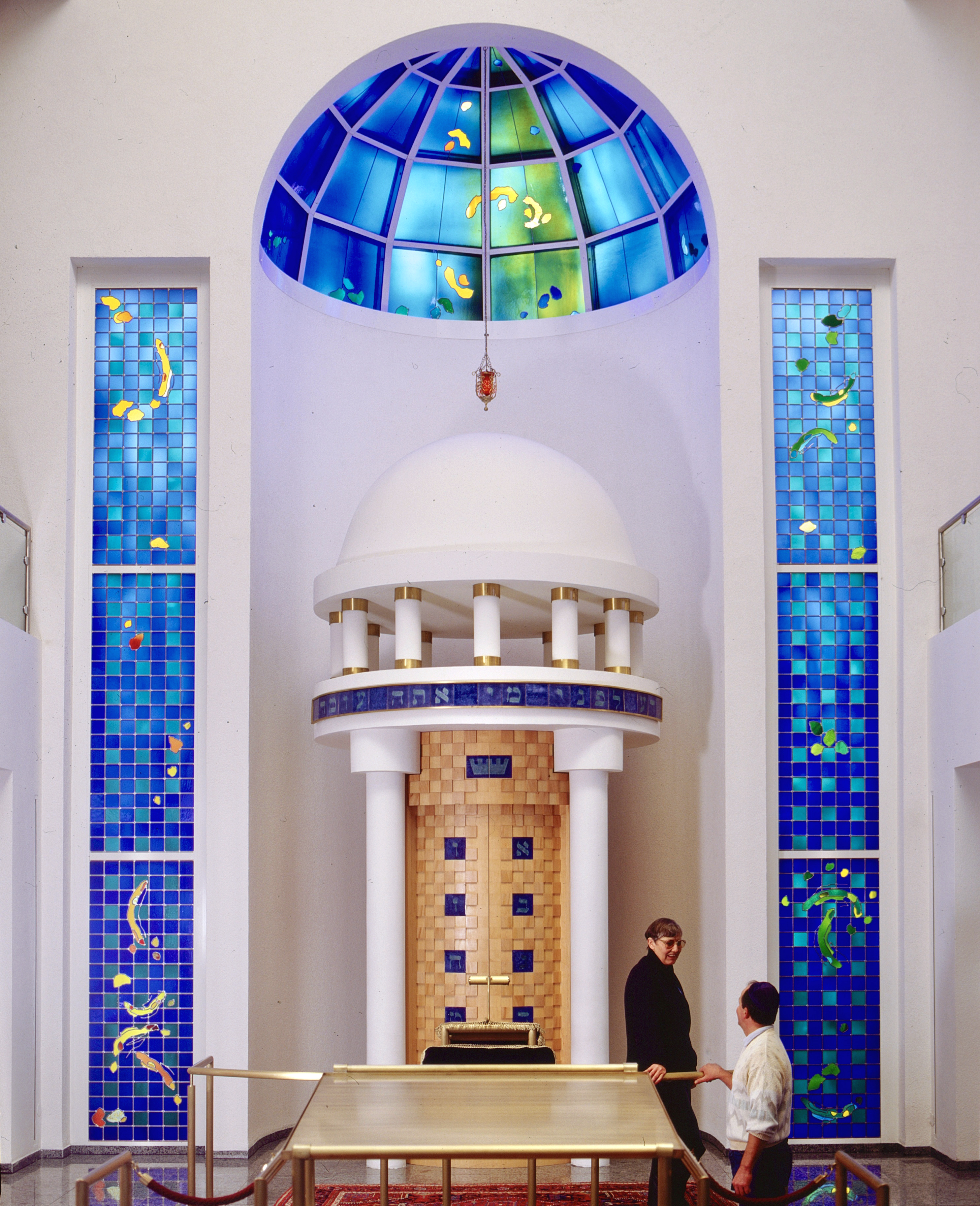 The Torah shrine (wood and ceramic) and stained glass dome and windows designed by Brian Clarke for Alfred Jacoby’s 1988 Holocaust Memorial Synagogue (Neue Synagoge/New Synagogue Darmstadt).